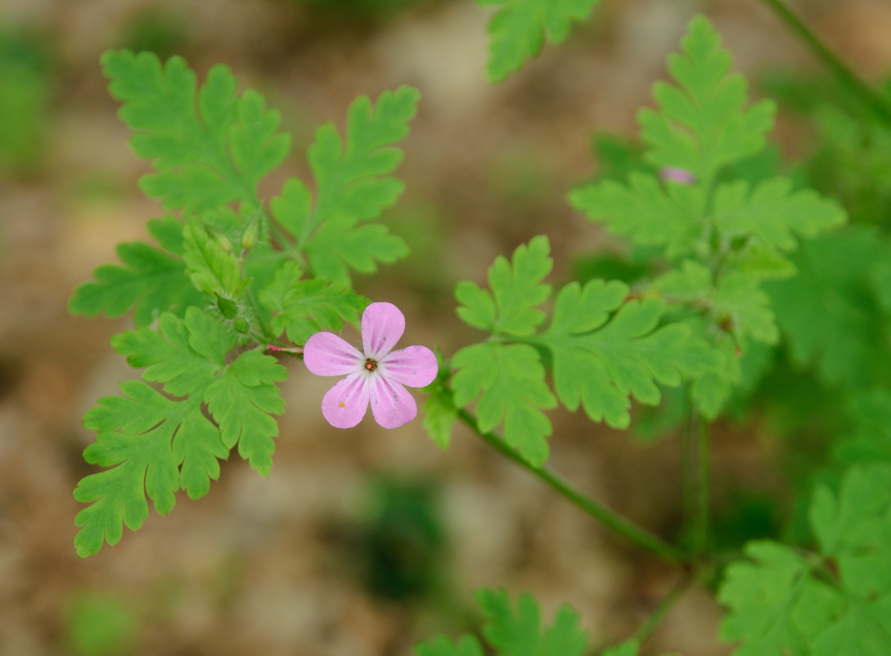 A flower of Geranium robertianum (Herb Robert) found near the Etropole Monastery in the vicinity of the Balkan mountains, Sofia Province, Bulgaria.